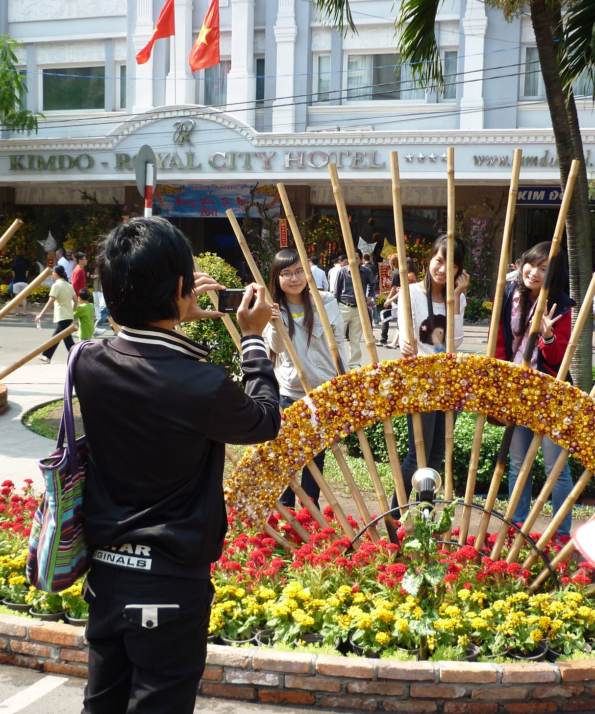 Posture at bamboo flower fan